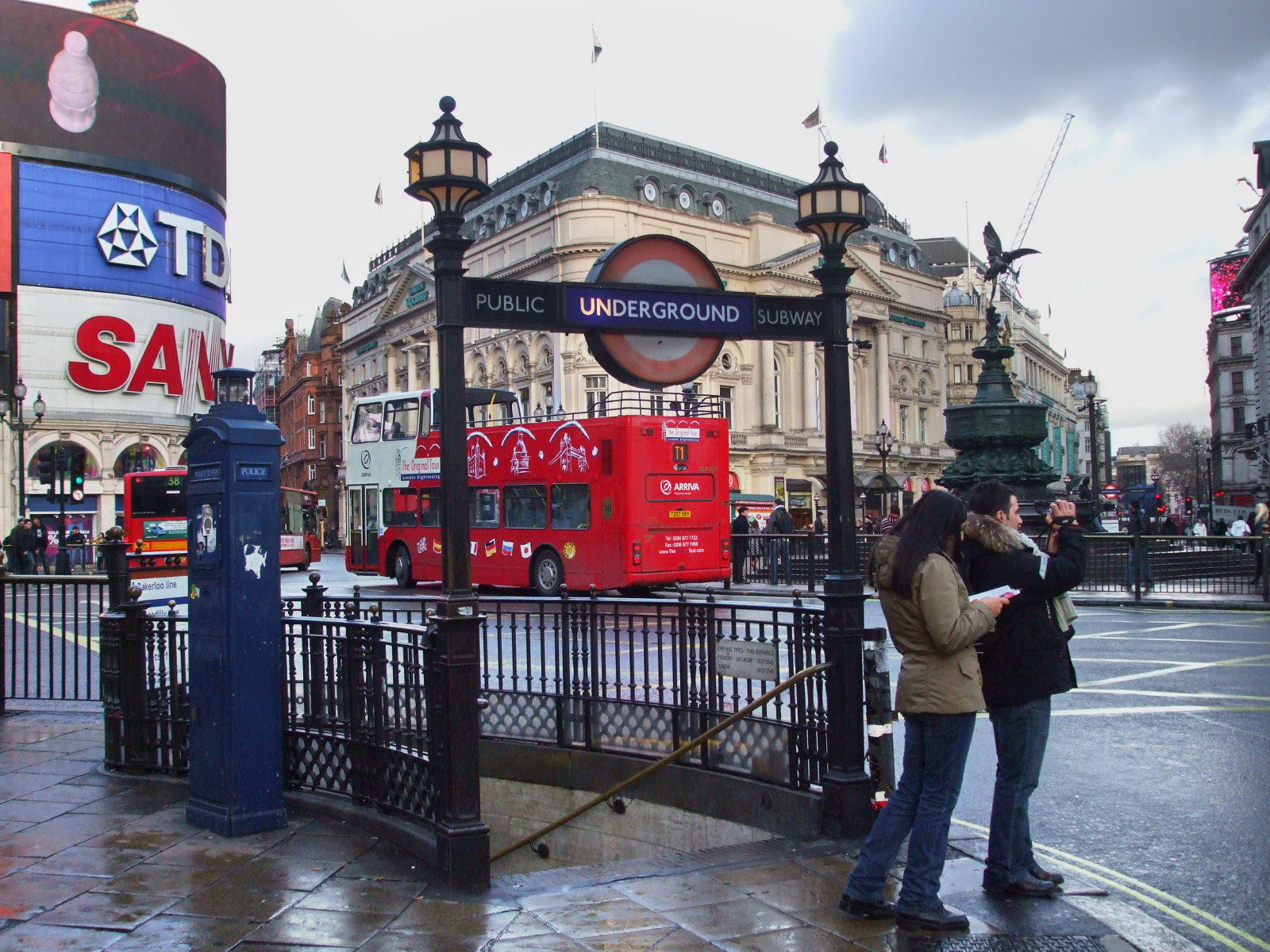 Piccadilly Circus tube station entrance on the north side of Piccadilly, looking towards Piccadilly Circus itself